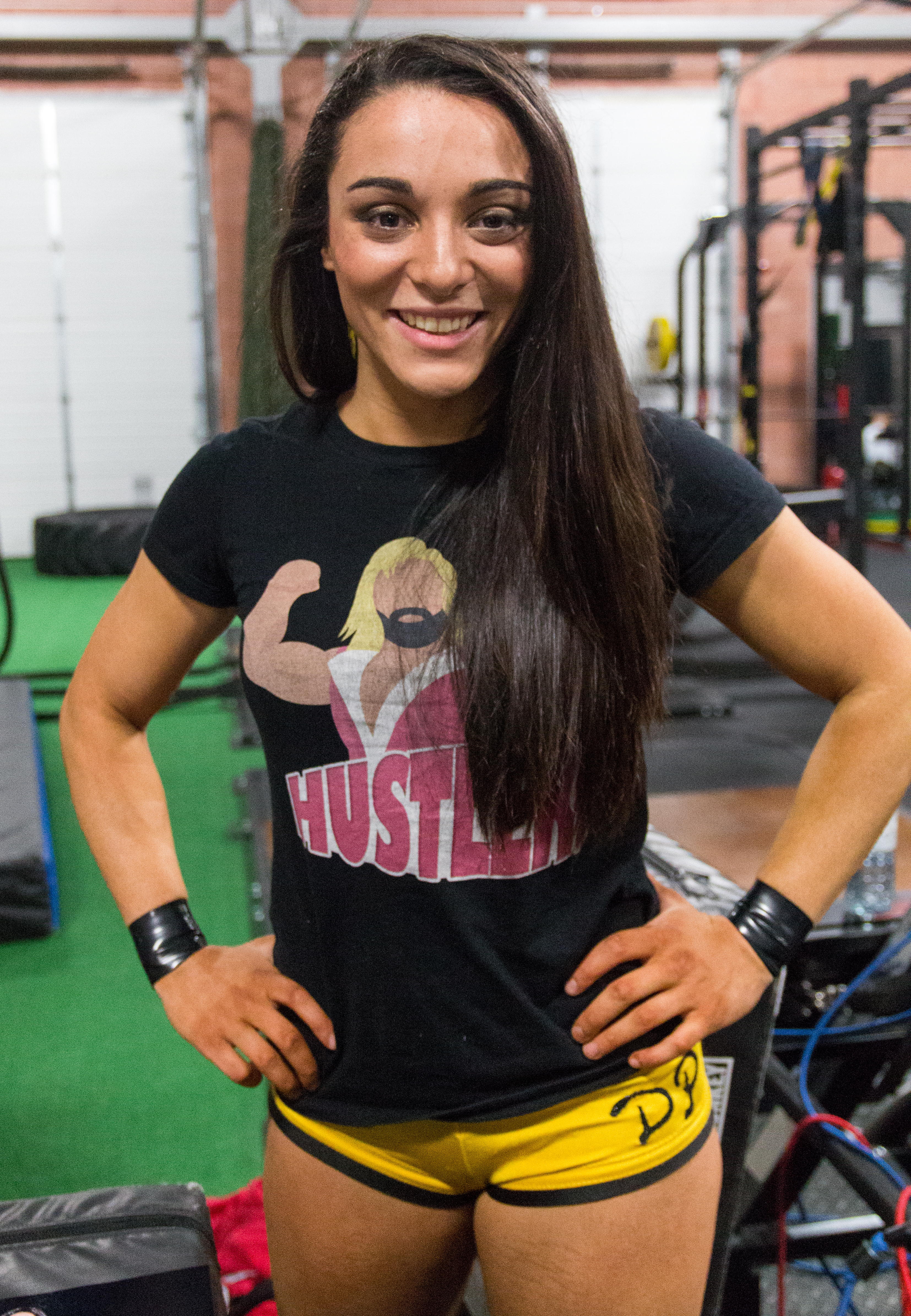 Deonna Purrazzo at a Destiny Wrestling show in Mississauga, ON